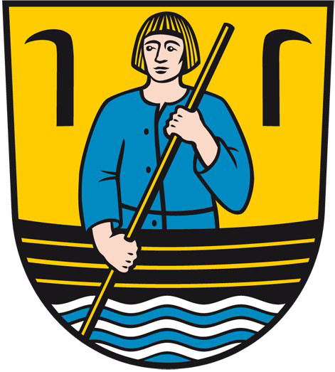 Coat of arms of Uetz-Paaren, Part of Potsdam